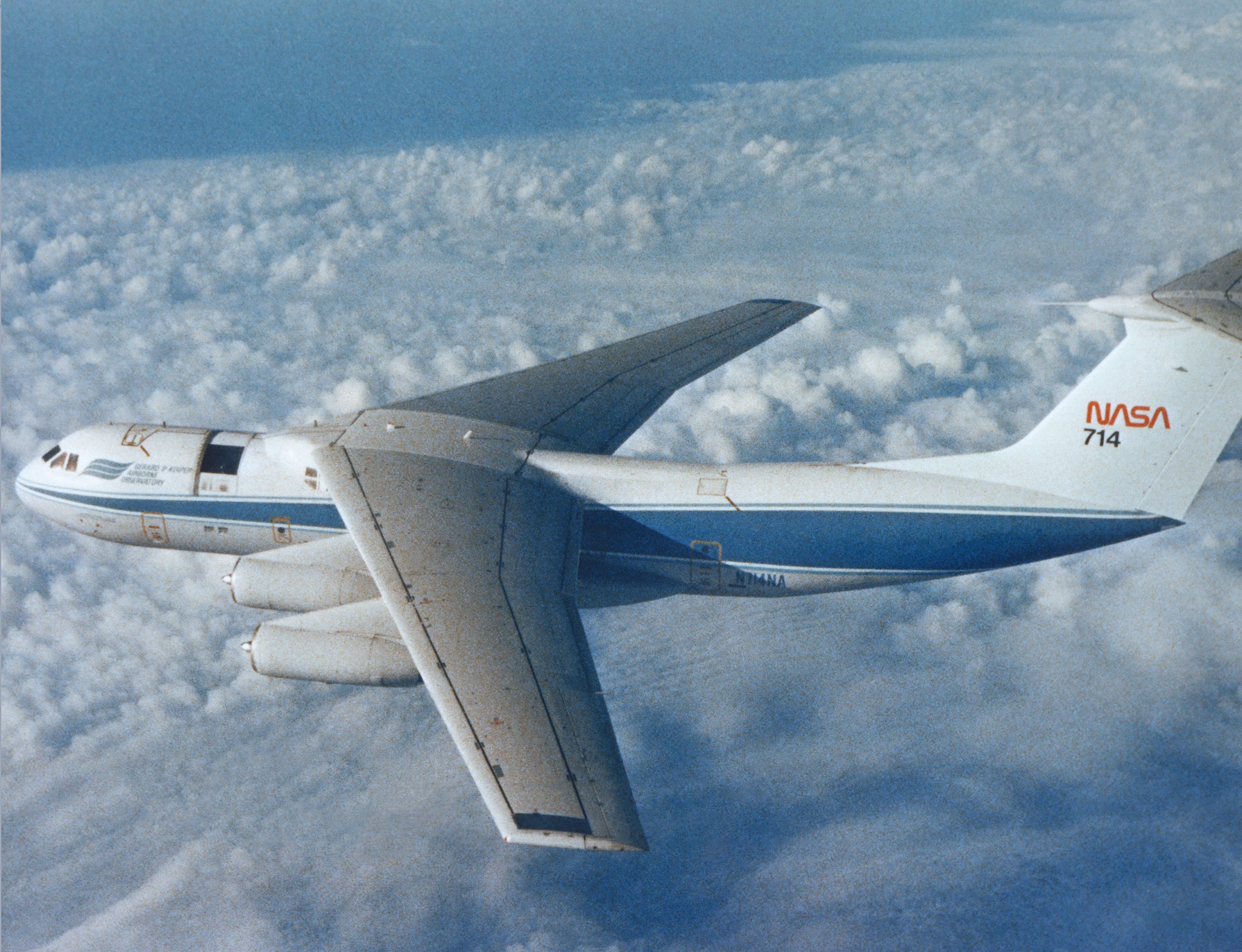 The KAO (Kuiper Airborne Observatory) of NASA, a modified C-141A, photographed in flight